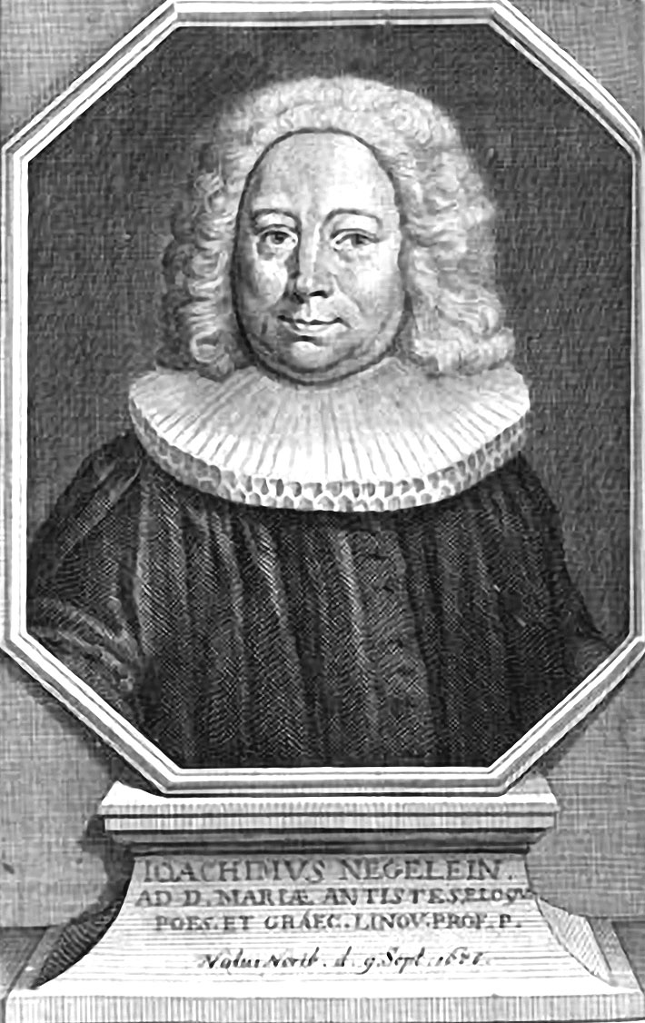 Joachim Negelein (1675-1749) Protestant theologian from Germany